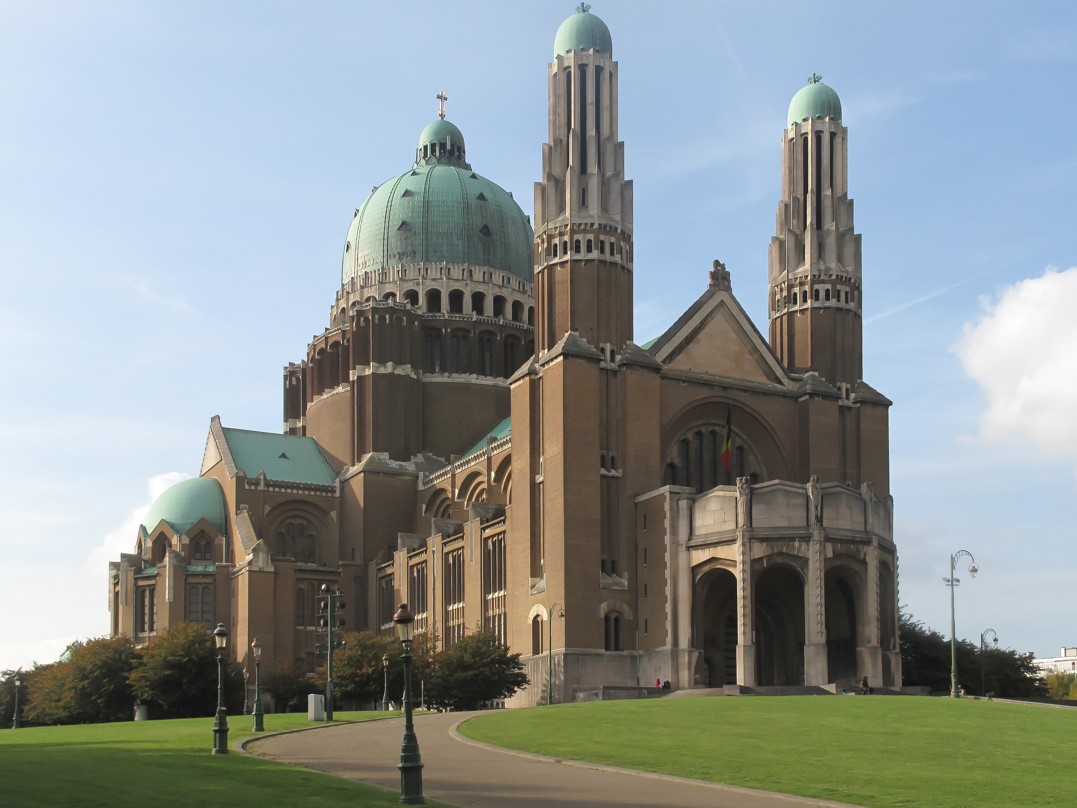 Brussels-Koekelberg, cathedraal